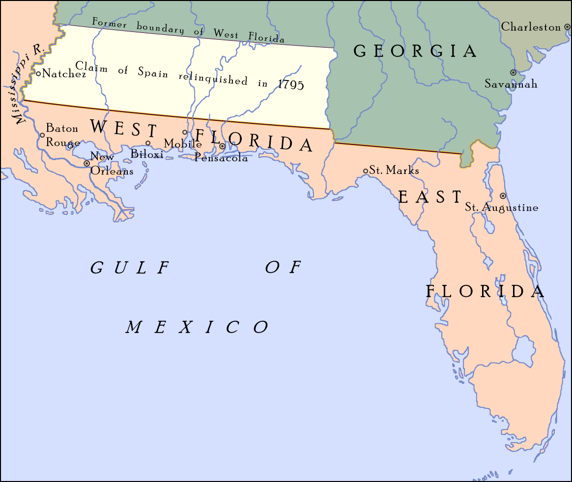 Map showing the boundary between the United States and Spanish Florida as set by "Pinckney's Treaty"—signed on October 27, 1795 and became effective on August 3, 1796—at 31°N; also shown is the portion of Spanish West Florida between 31°N and 32° 22′, which Spain relinquished its claim to in the treaty. On April 7, 1798, Congress organized the region as the Mississippi Territory.[1]